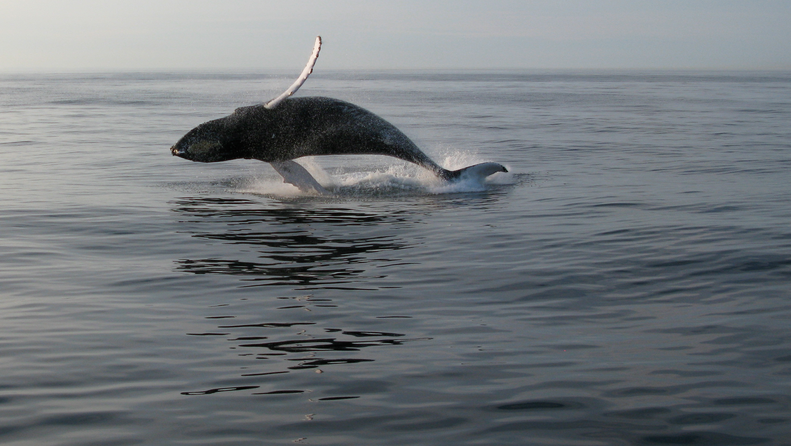 A humpback whale in Bar Harbor, Maine, USA.